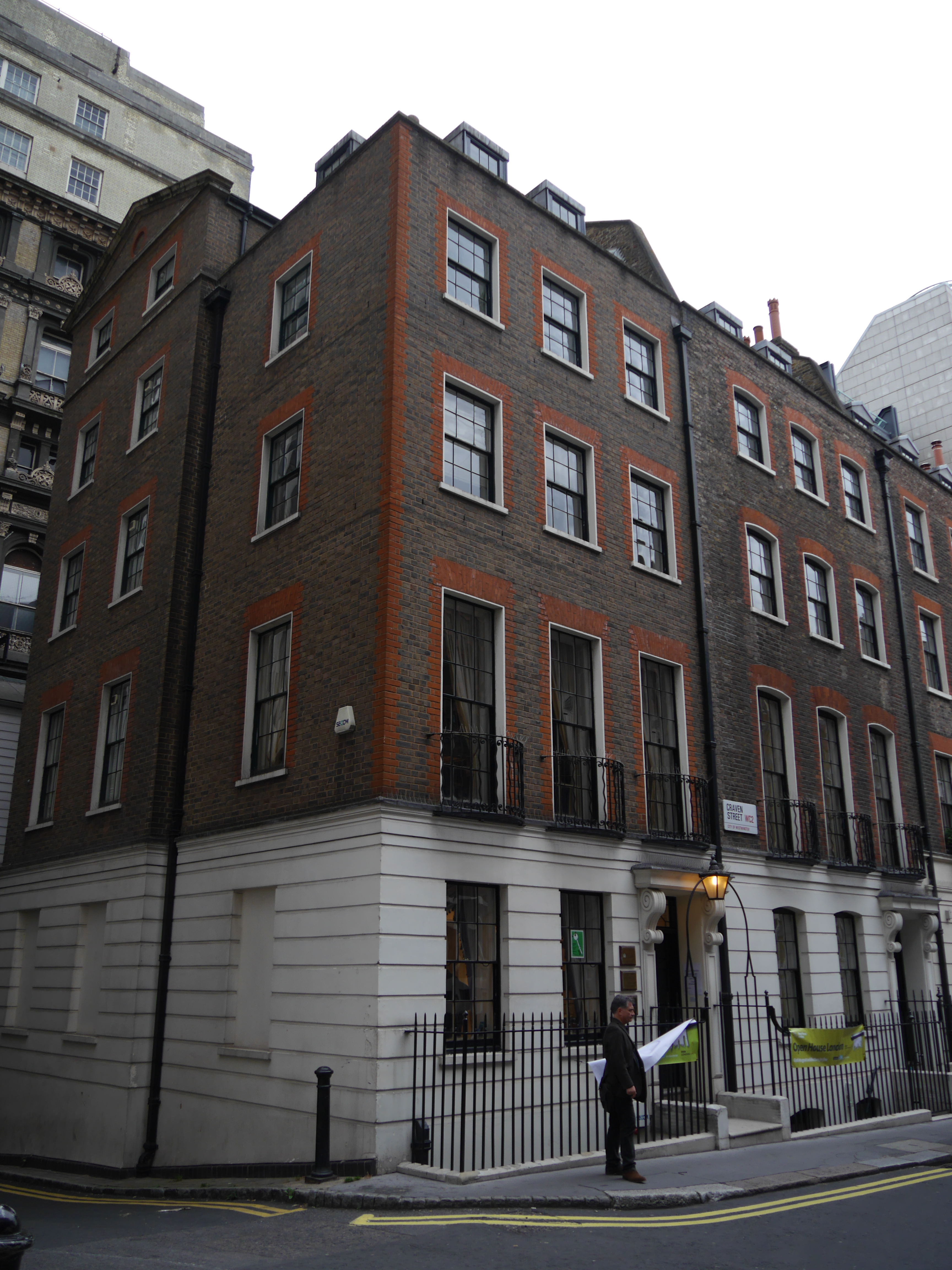 College of Optometrists, London, September 2016